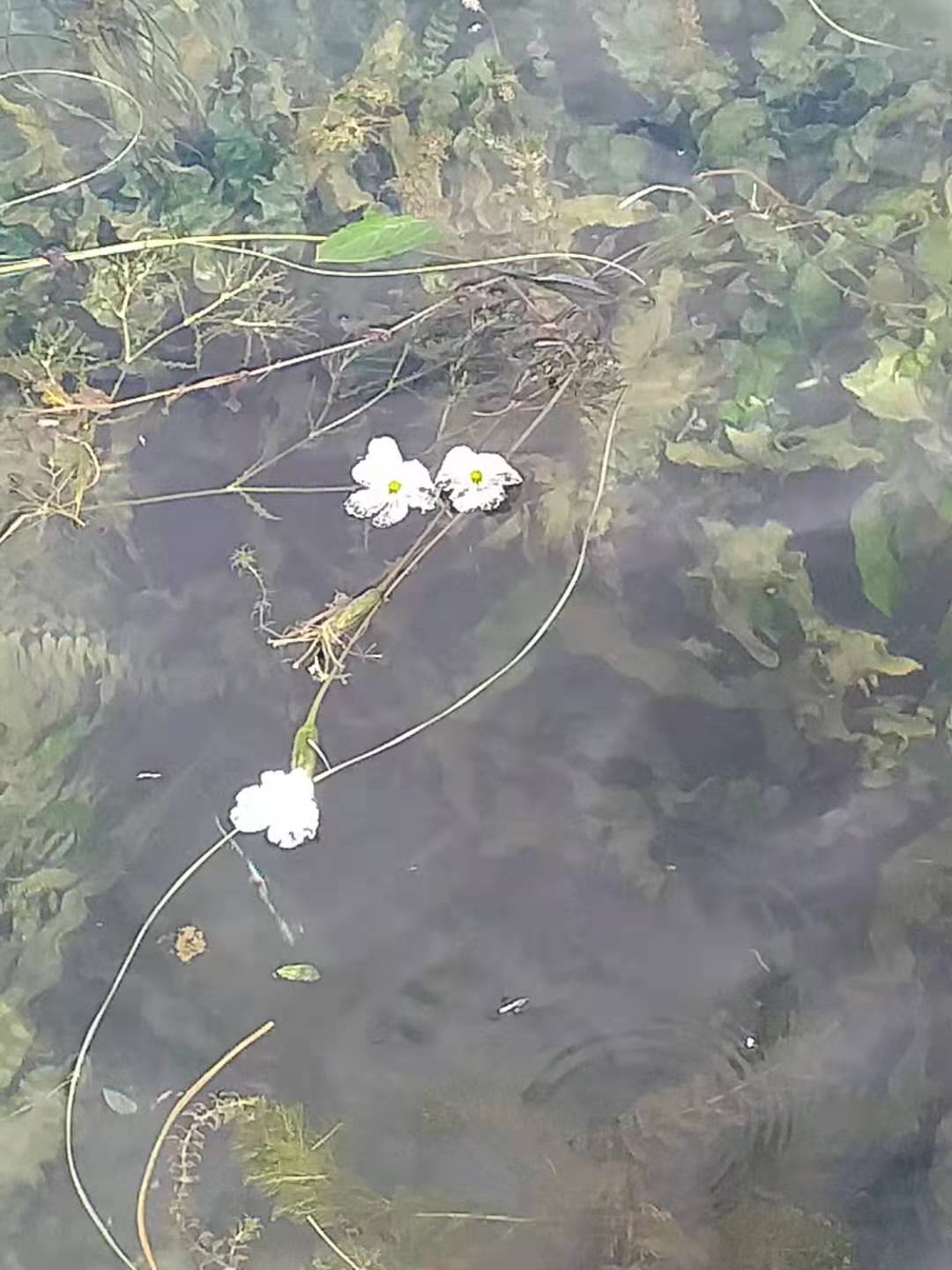 Ottelia acuminata var. crispa is native to Yunnan and Sichuan (Lugu Lake). Apart from the flowers, which float on the surface of the water on sunny days, the stems and leaves live under water. During the flowering period from May to September, we can see that the surface of Lugu Lake is full of small white flowers. Ottelia acuminata var. crispa can live only in extremely pure water and now, because of global pollution problems, Lugu Lake is the only place where it can still survive. Ottelia acuminata var. crispa is edible. Before being a plant protected by the government, it was used as wild vegetables. Thanks to the macro, we can see that the small flowers of Ottelia acuminata var. crispa are very beautiful. Photo taken in Lugu Lake of Yunnan province, China.